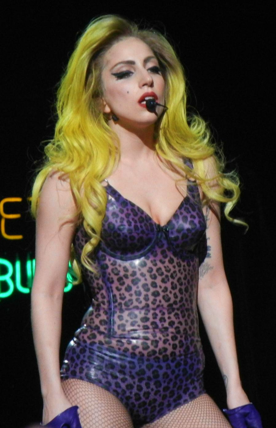 Lady Gaga performing on The Monster Ball Tour in Nashville, Tennessee in April 2011